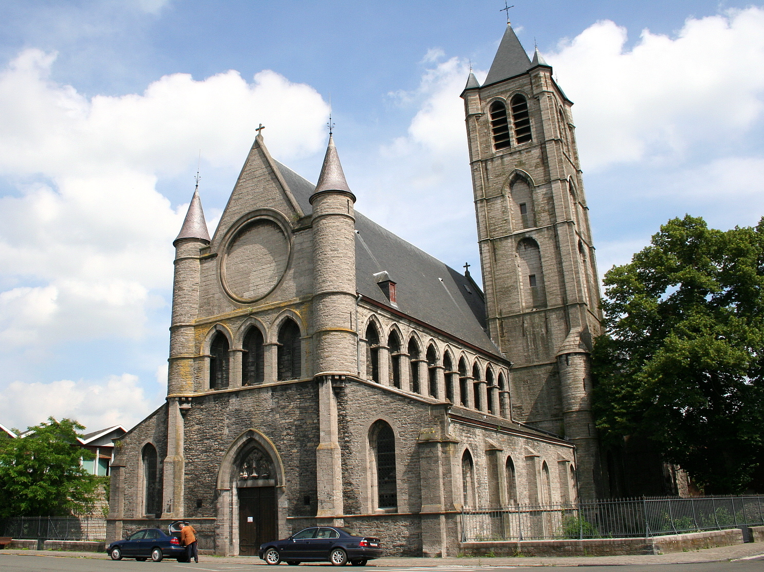 Tournai (Belgium), the St. Nicholas church (XII/XVth centuries).